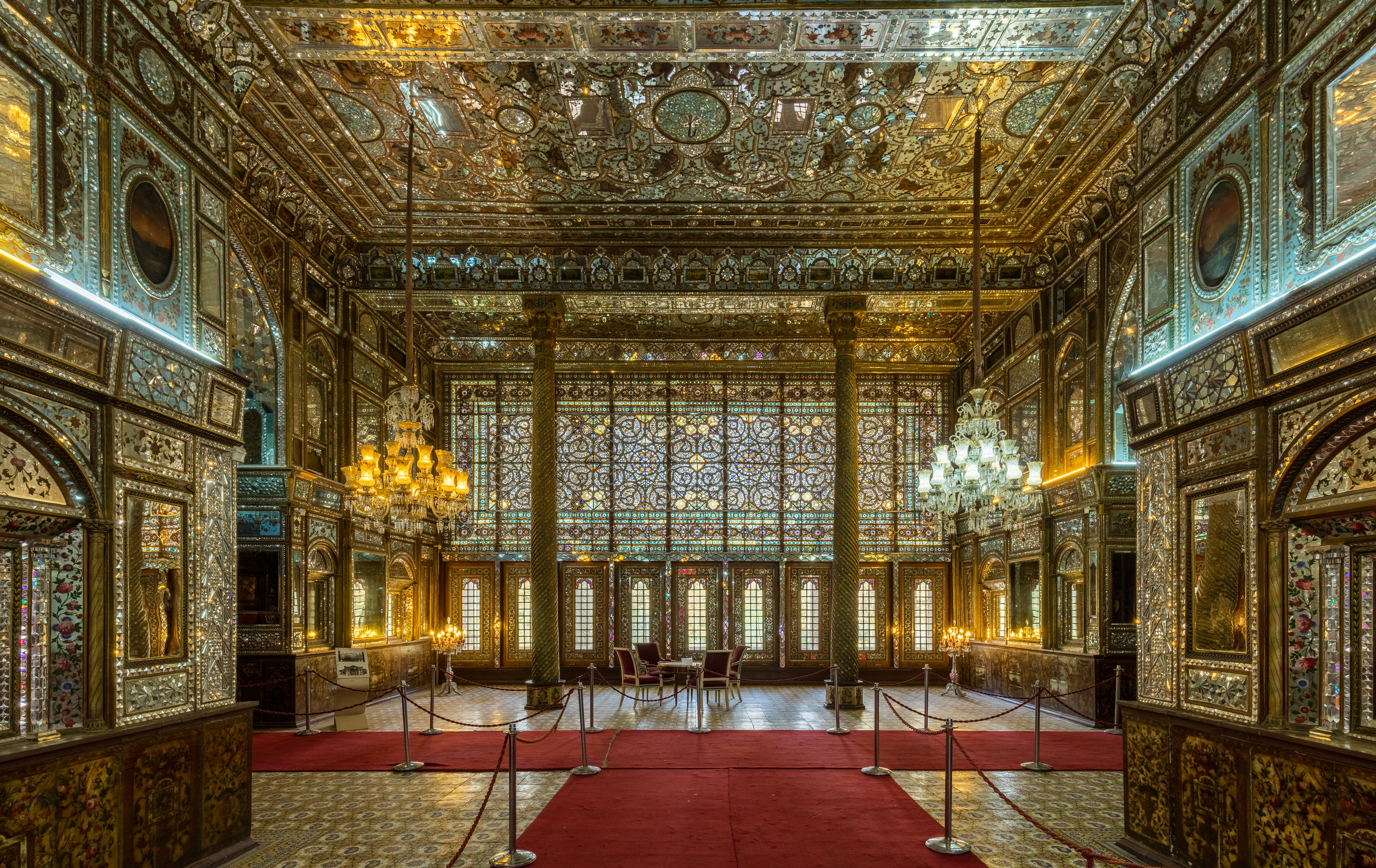 Golestan Palace is the former royal Qajar complex in Iran's capital city, Tehran. The UNESCO World Heritage Site belongs to a group of royal buildings that were once enclosed within the mud-thatched walls of Tehran's arg ("citadel") and is one of the oldest of the historic monuments in the city.